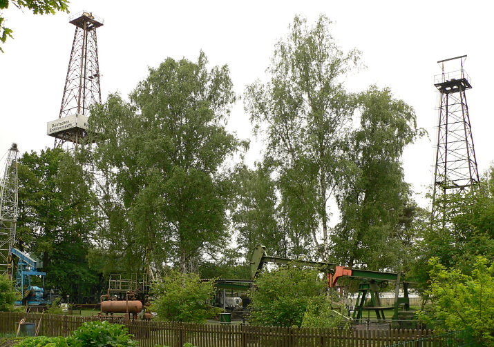 Outside exhibits at the German Oil Museum, Wietze, Lower Saxony